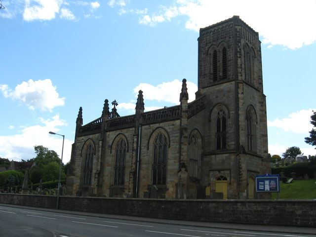 Airth Parish Church In Airth, Stirlingshire